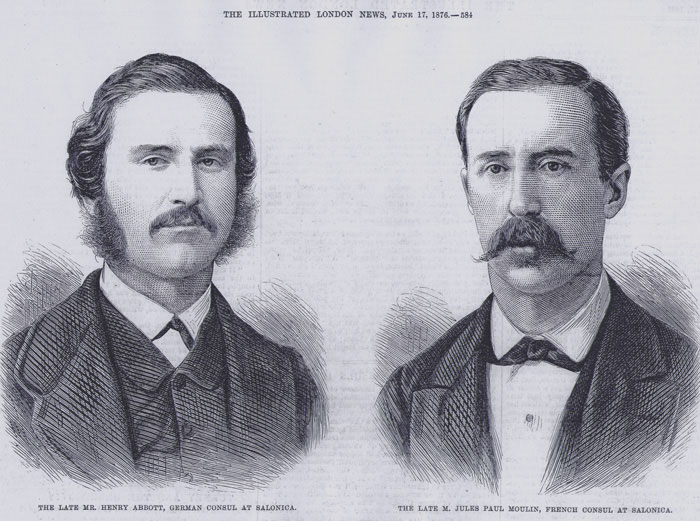 Henry_Abbott_Jules_Moulin